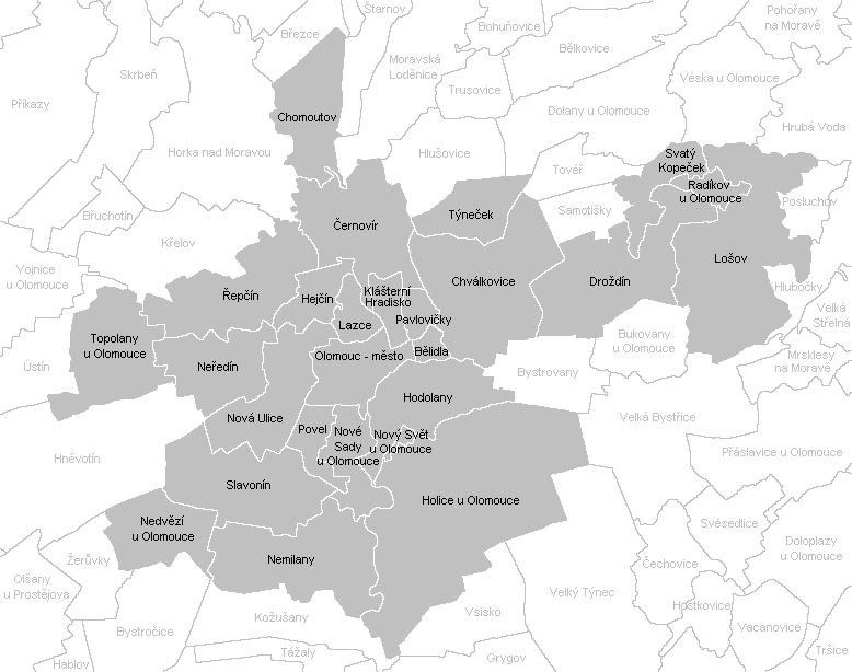 Cadastral map of Olomouc